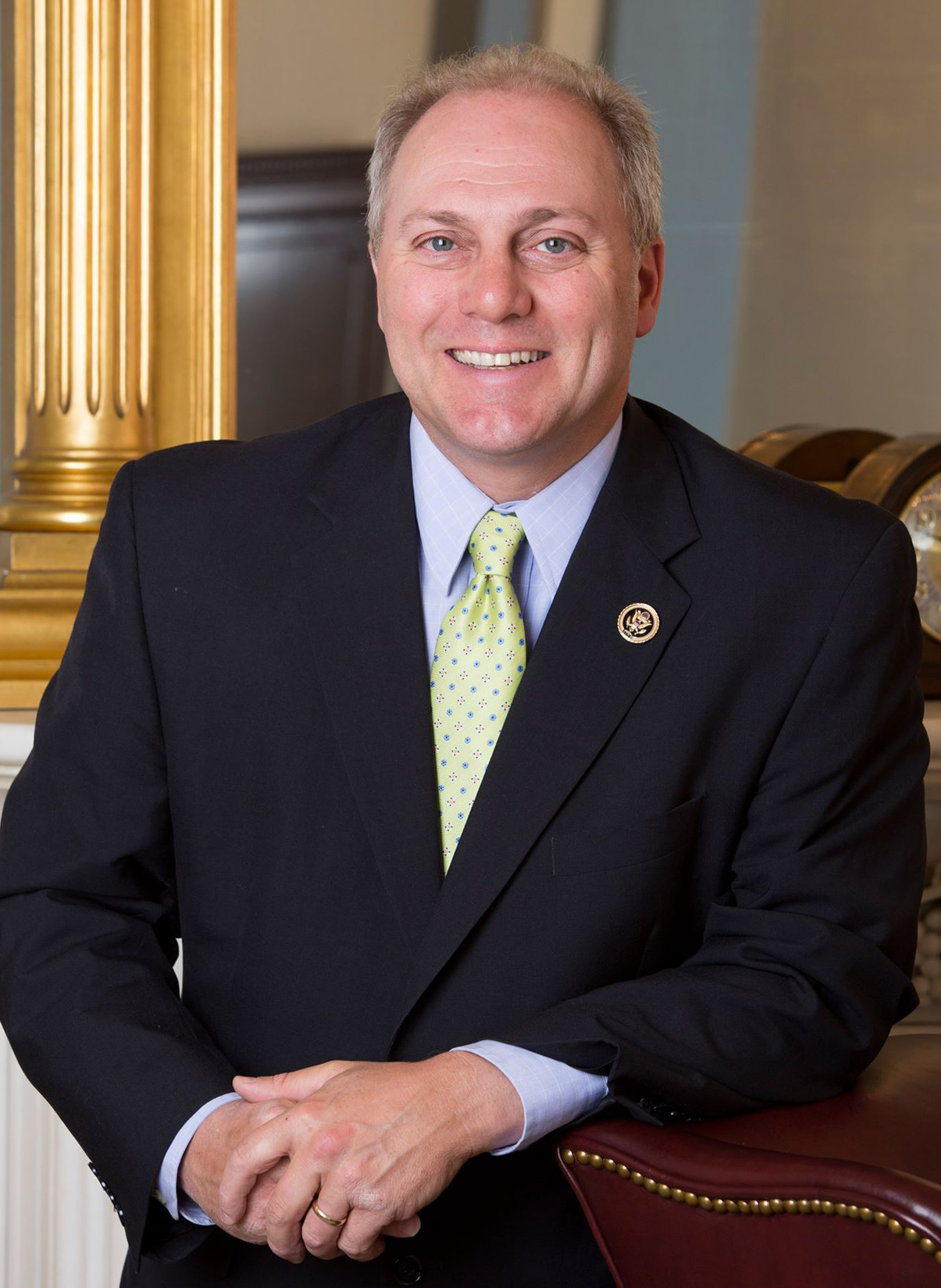 Official portrait of Congressman Steve Scalise (R-LA)